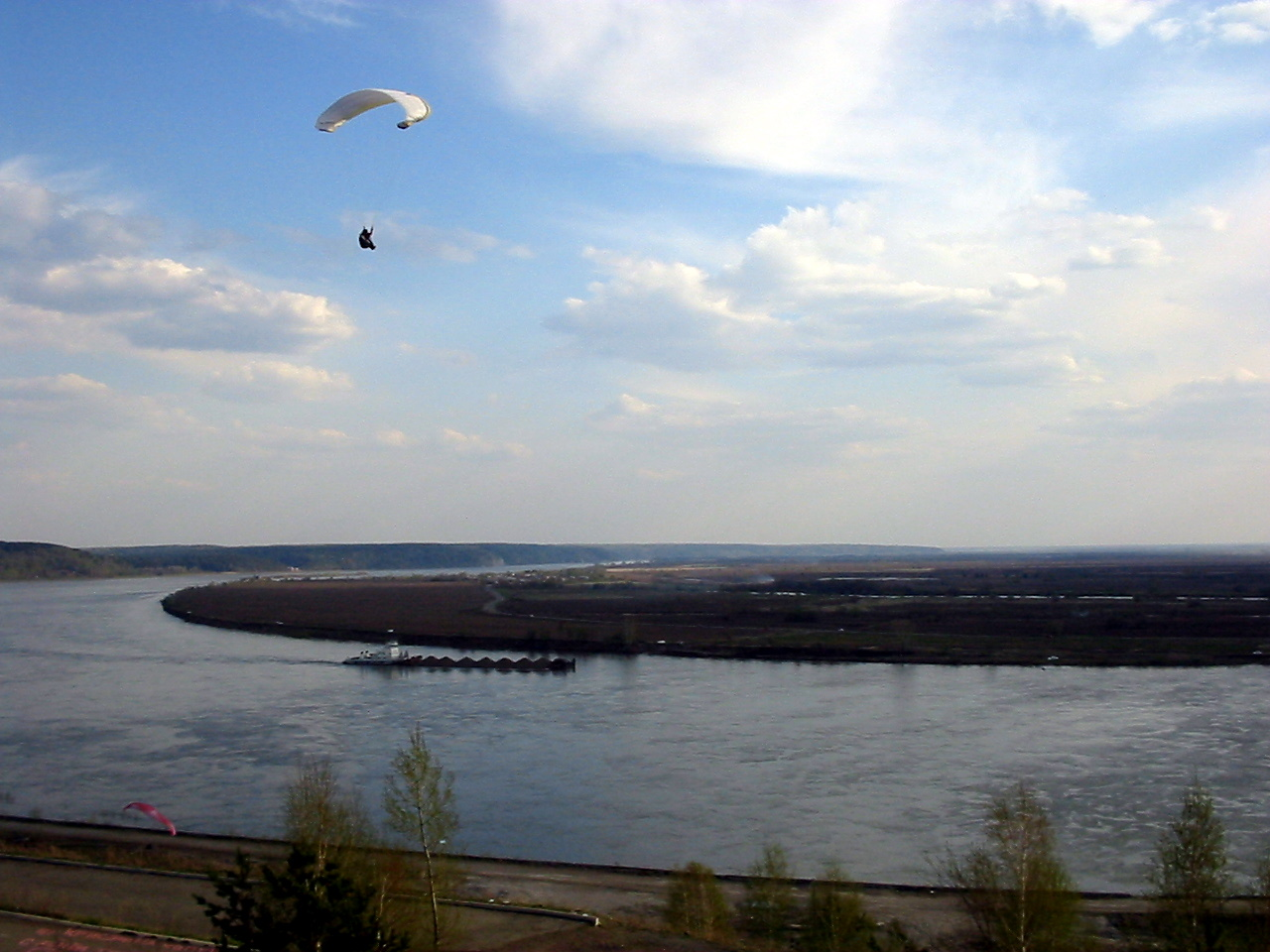 Tom River at Lagerny gardens, Tomsk